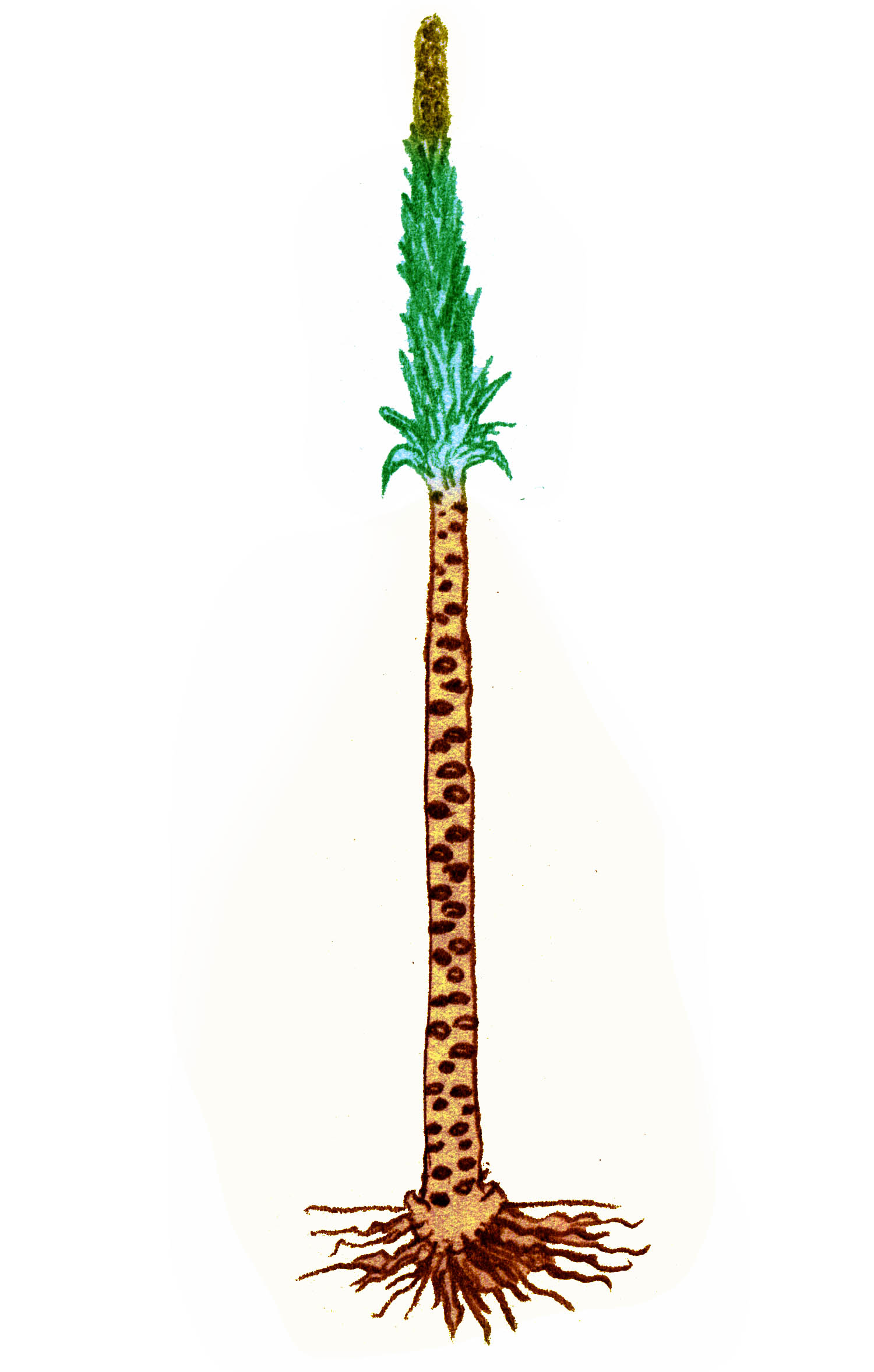 Restoration of Pleuromeia, an extinct plant